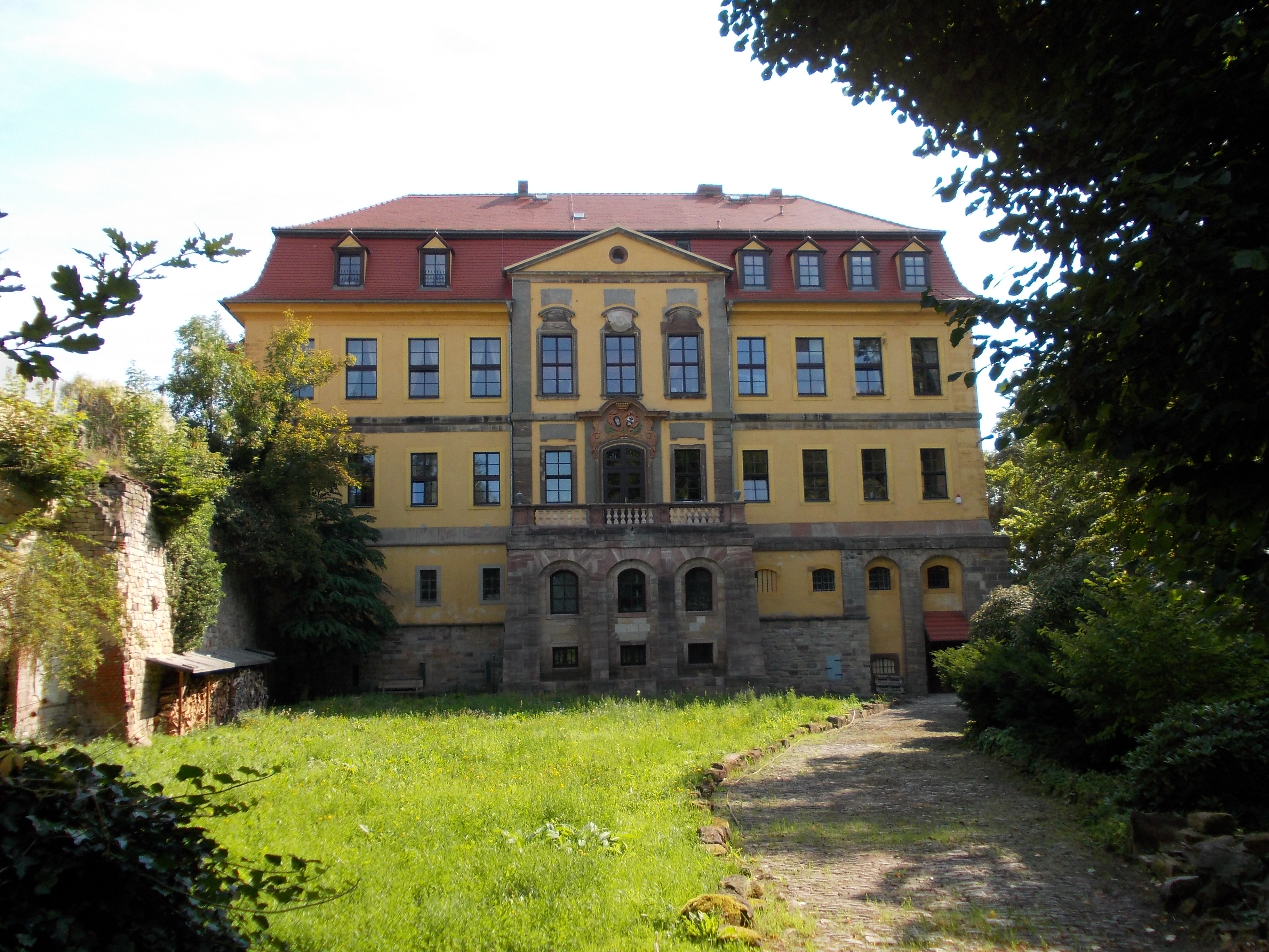 Lodersleben Castle (Querfurt, district of Saalekreis, Saxony-Anhalt) from the west